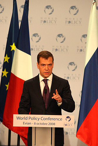 EVIAN. Speech at the World Policy Conference.